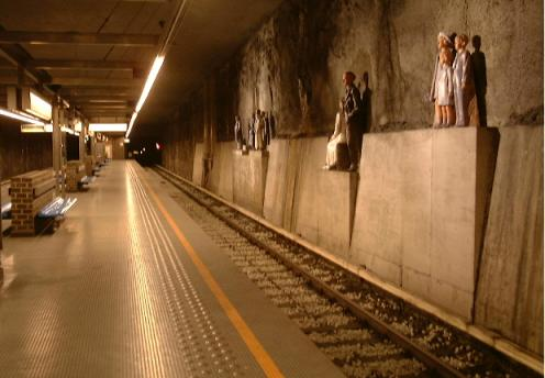 Platform of Stuyvenbergh station, Brussels metro